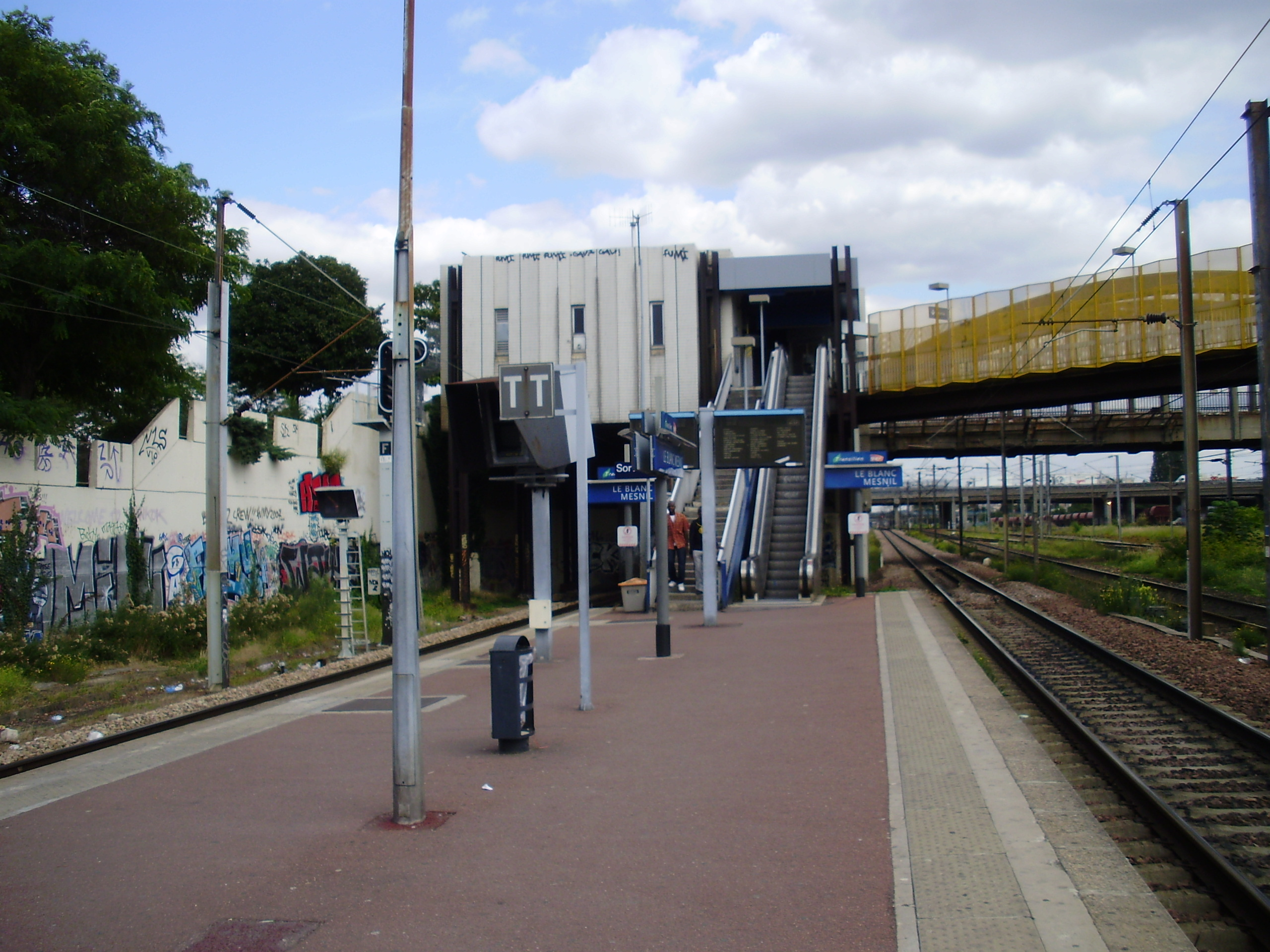 Le Blanc-Mesnil station, Seine-Saint-Denis, France (escalator of the single exit at the east extremity of the station, Aulnay-sous-Bois side)